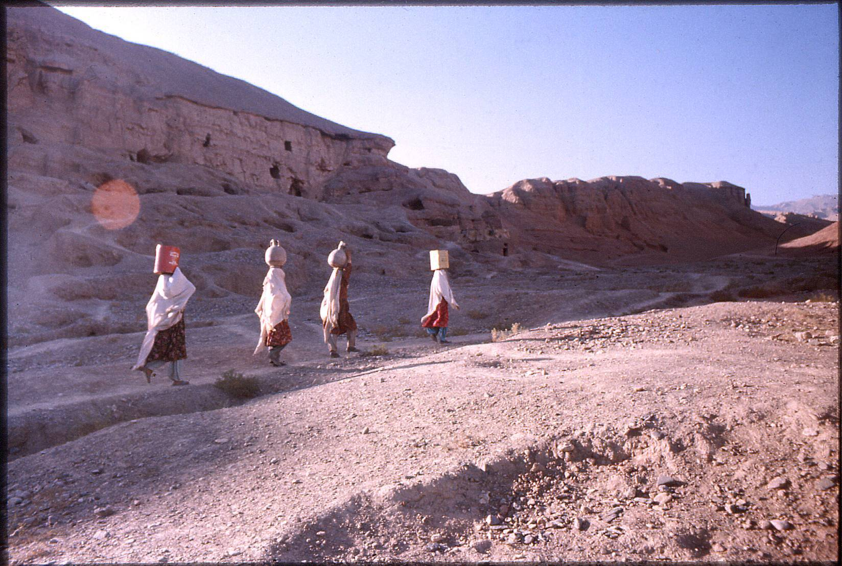 Women, fully veiled, carrying heavy pots or metal tins of water on their heads in a rocky valley near Bamiyan, Afghanistan, 1976